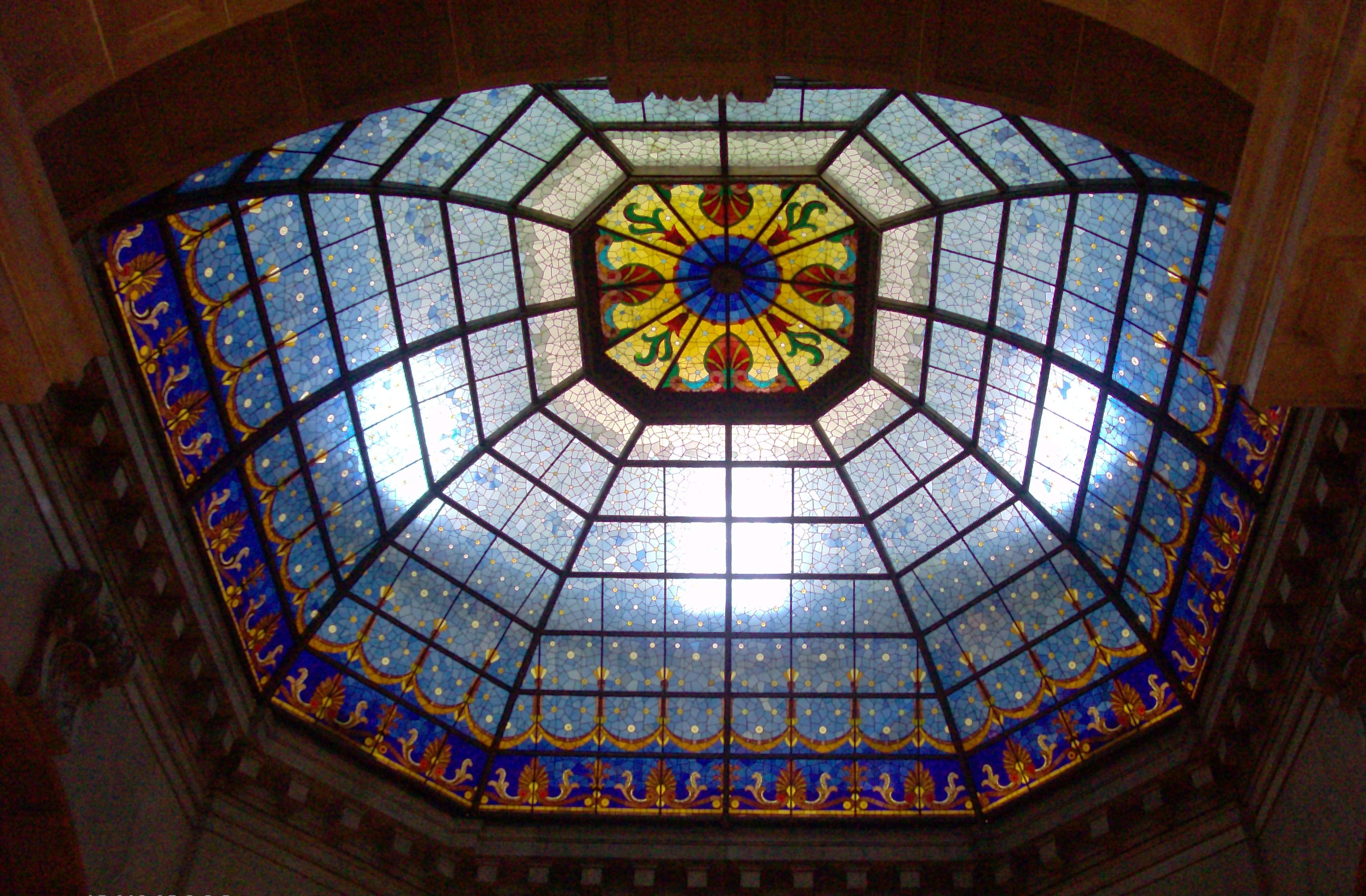 Dome interior of Indiana State House